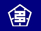 Flag of Tajimi Gifu